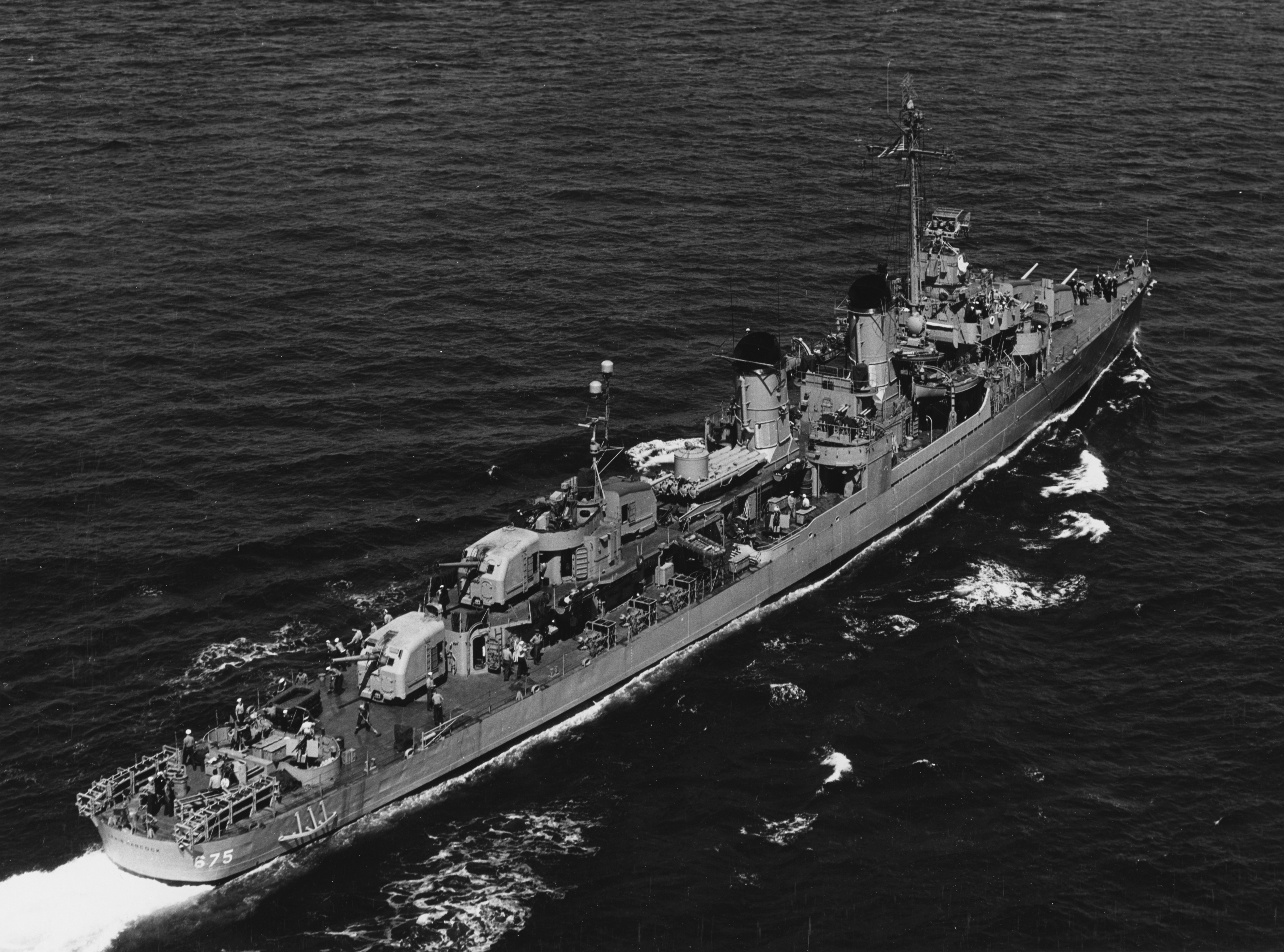 The U.S. Navy destroyer USS Lewis Hancock (DD-675) underway circa in 1951, soon after being recommissioned.